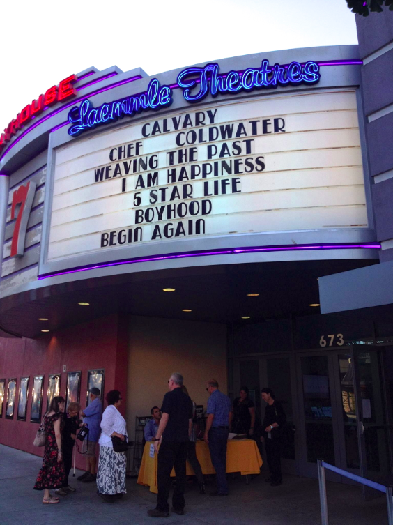 CWtheatricalrelease